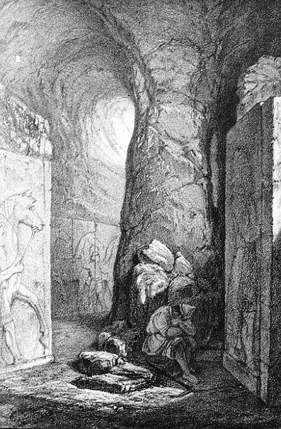 The entrance to the 'Archive Chambers' in the palace of Assurbanipal